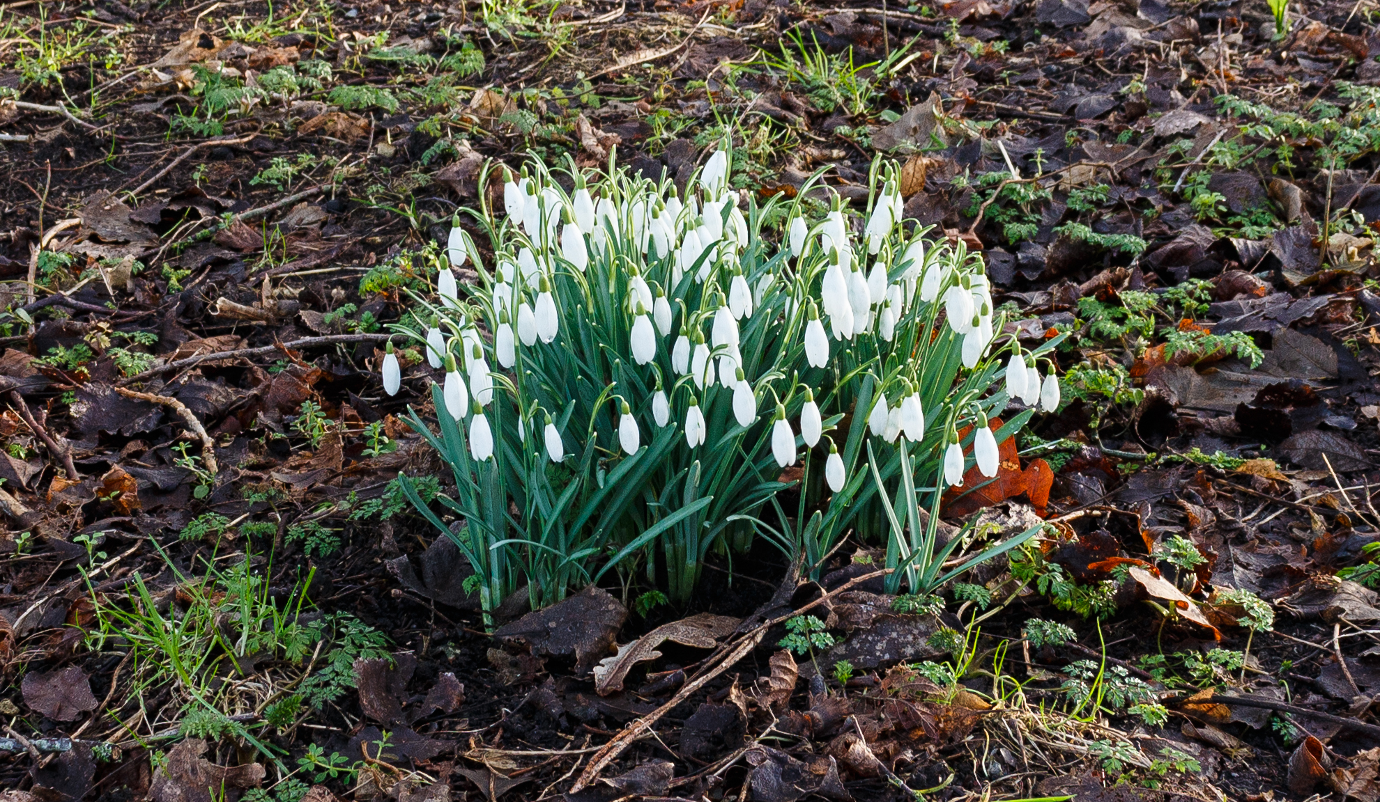 Sneeuwklokken (Galanthus nivalis) under bushes. Location, The Natuurterrein Famberhorst.